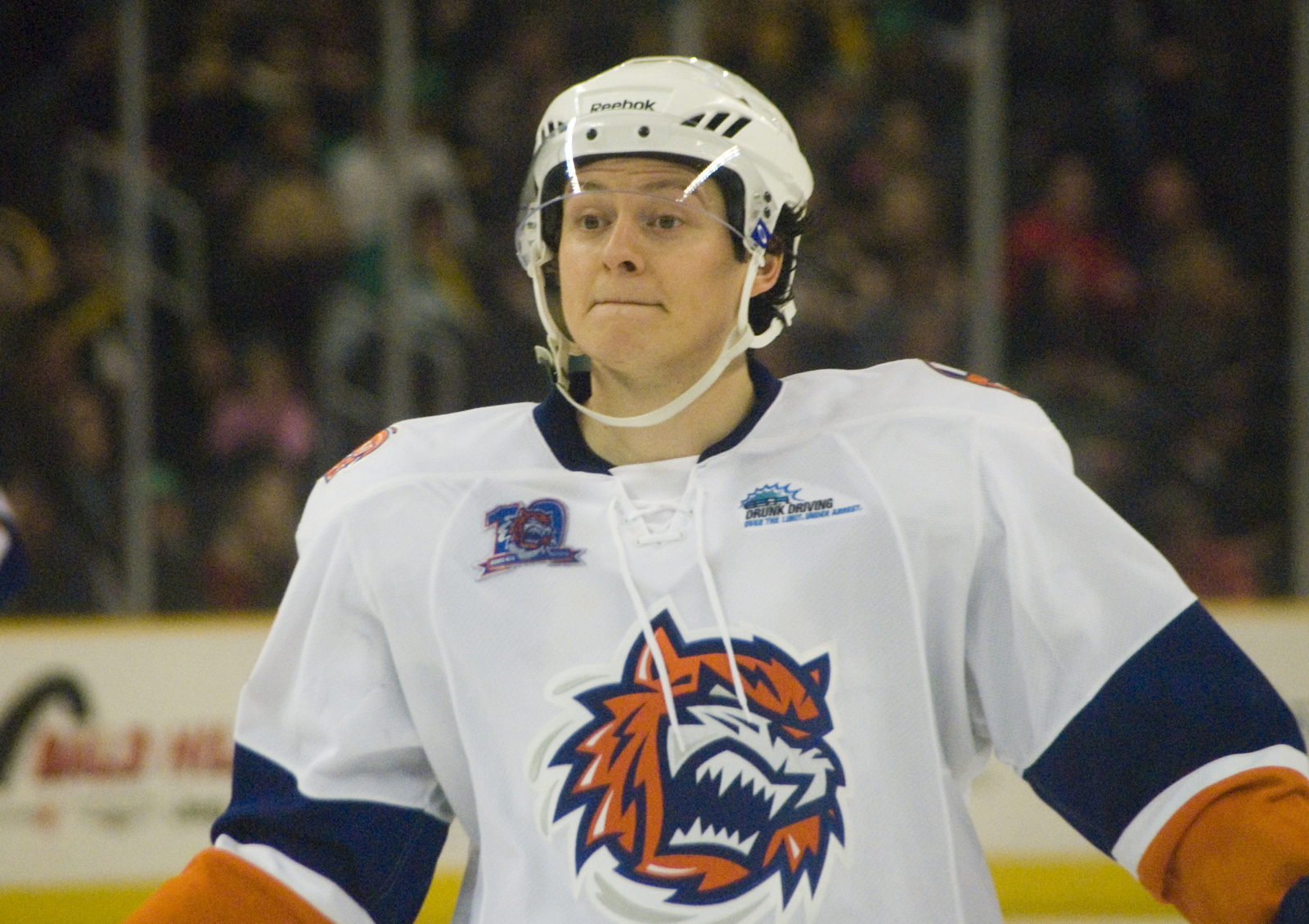 ERI_5646 Providence Bruins vs. Bridgeport Sound Tigers. American Hockey League (AHL) Taken by Sarah Connors on March 11, 2011 P-Bruins won in a shootout, 4-3. This photo also appears in Sarah Connors' Flickr Set "Providence vs. Bridgeport 3/12/11" (Set: 96)